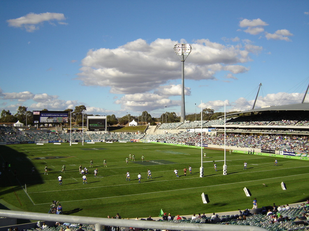 Canberra Stadium 19 March 2005, Canberra Raiders (green) vs. Canterbury Bulldogs (white), NSWRL Premier League